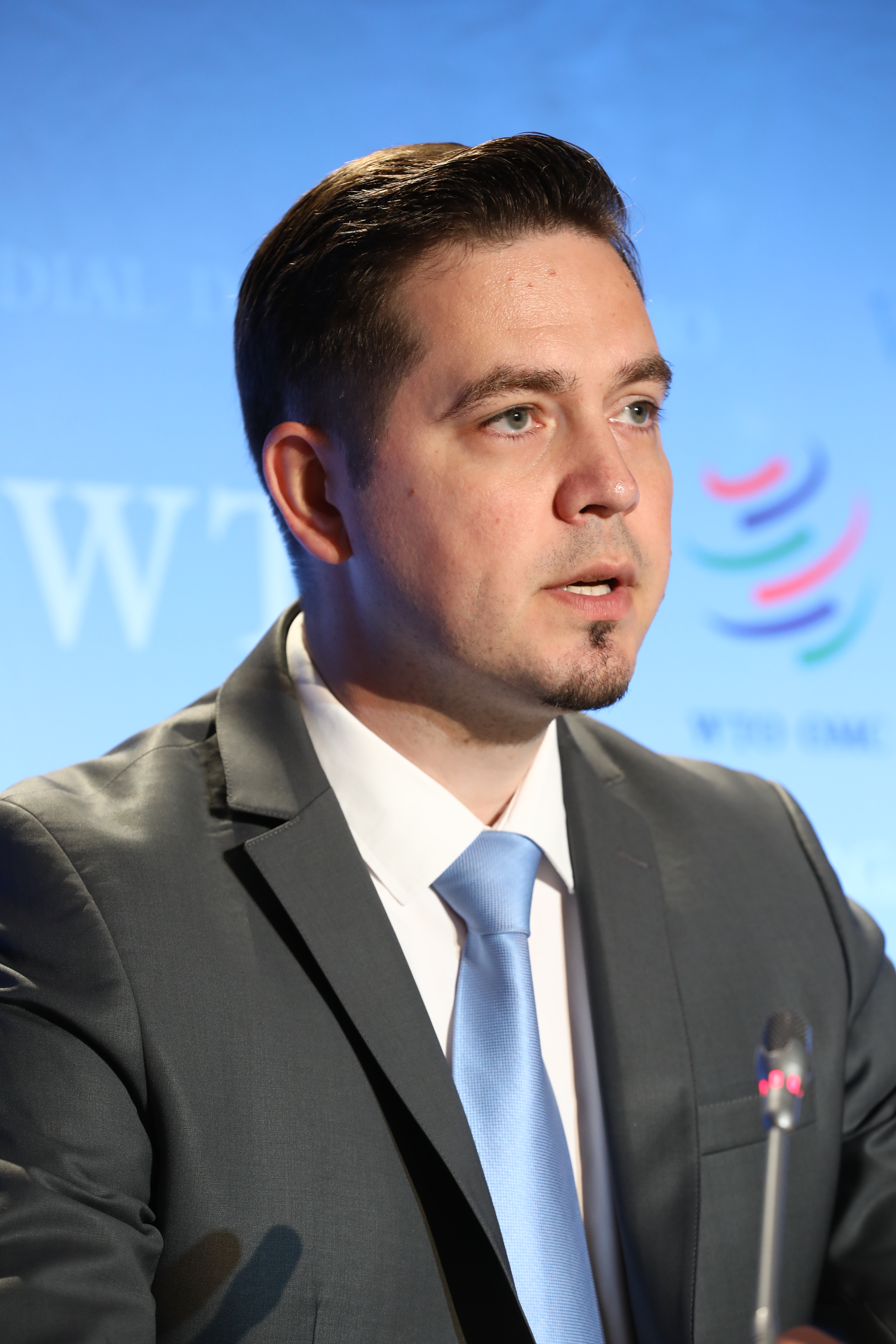 DG selection process 2020- Press conference - Mr Tudor Ulianovschi, Moldova - Photos from this photo gallery may be reproduced provided attribution is given to the WTO and the WTO is informed. Photos: ©WTO/Jay Louvion